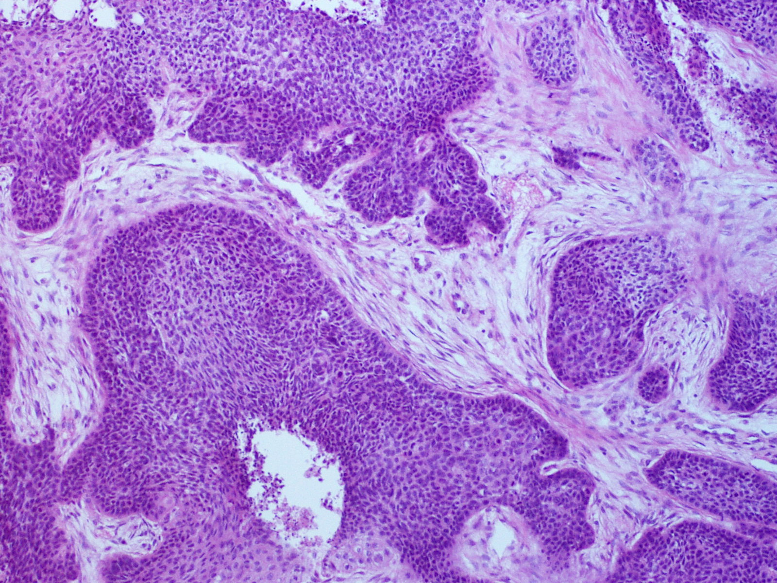 Basaloid (metatypic) squamous-cell carcinoma (magn. 10×)